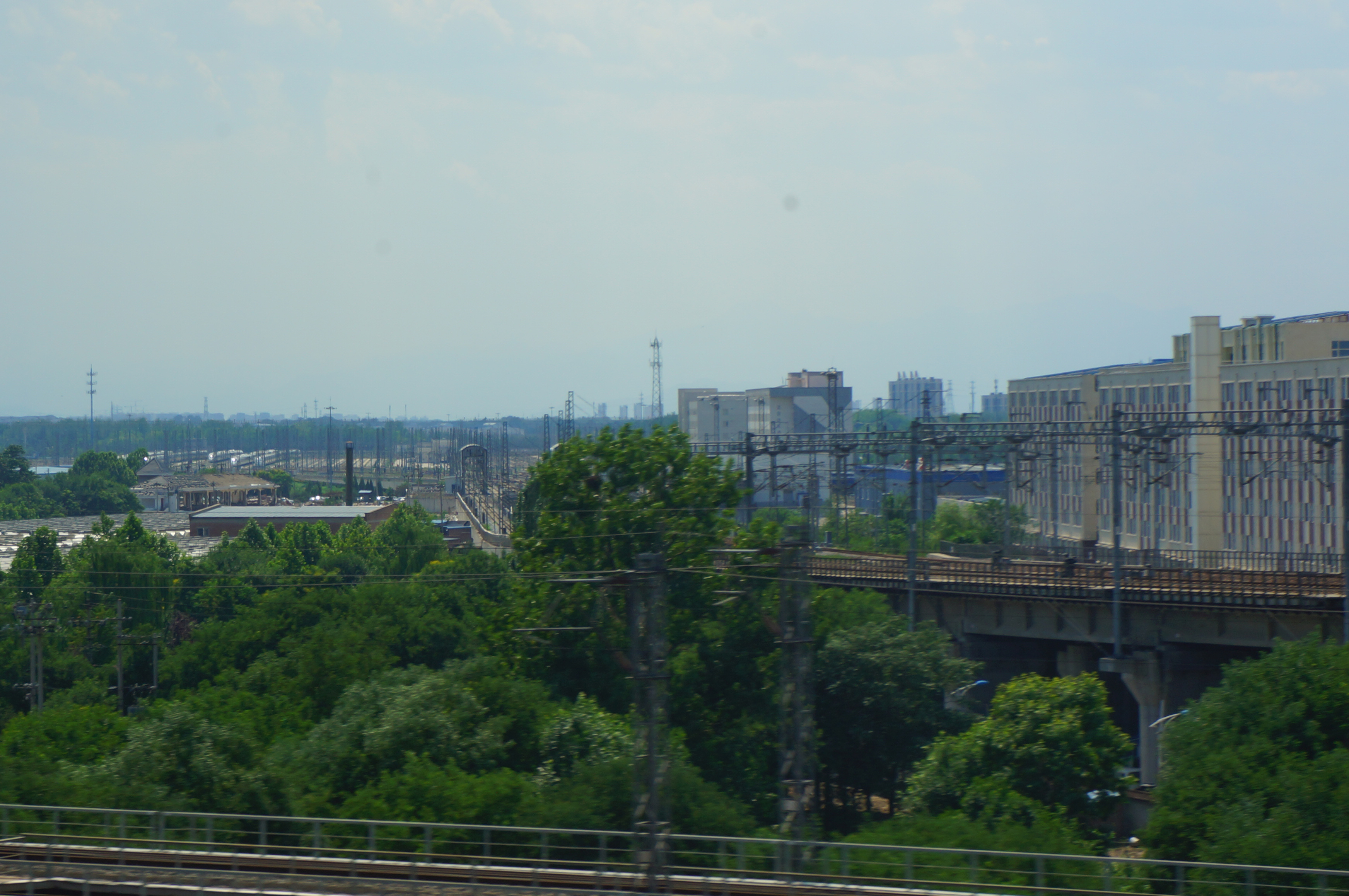 201606 Beijing EMU Depot